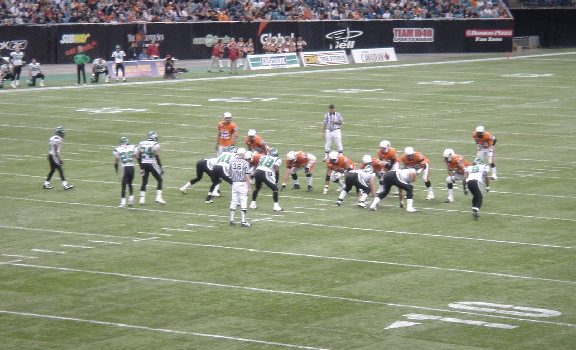 A detail of this image, originally uploaded to flickr here and released under the CC-BY-SA-2.0 license.